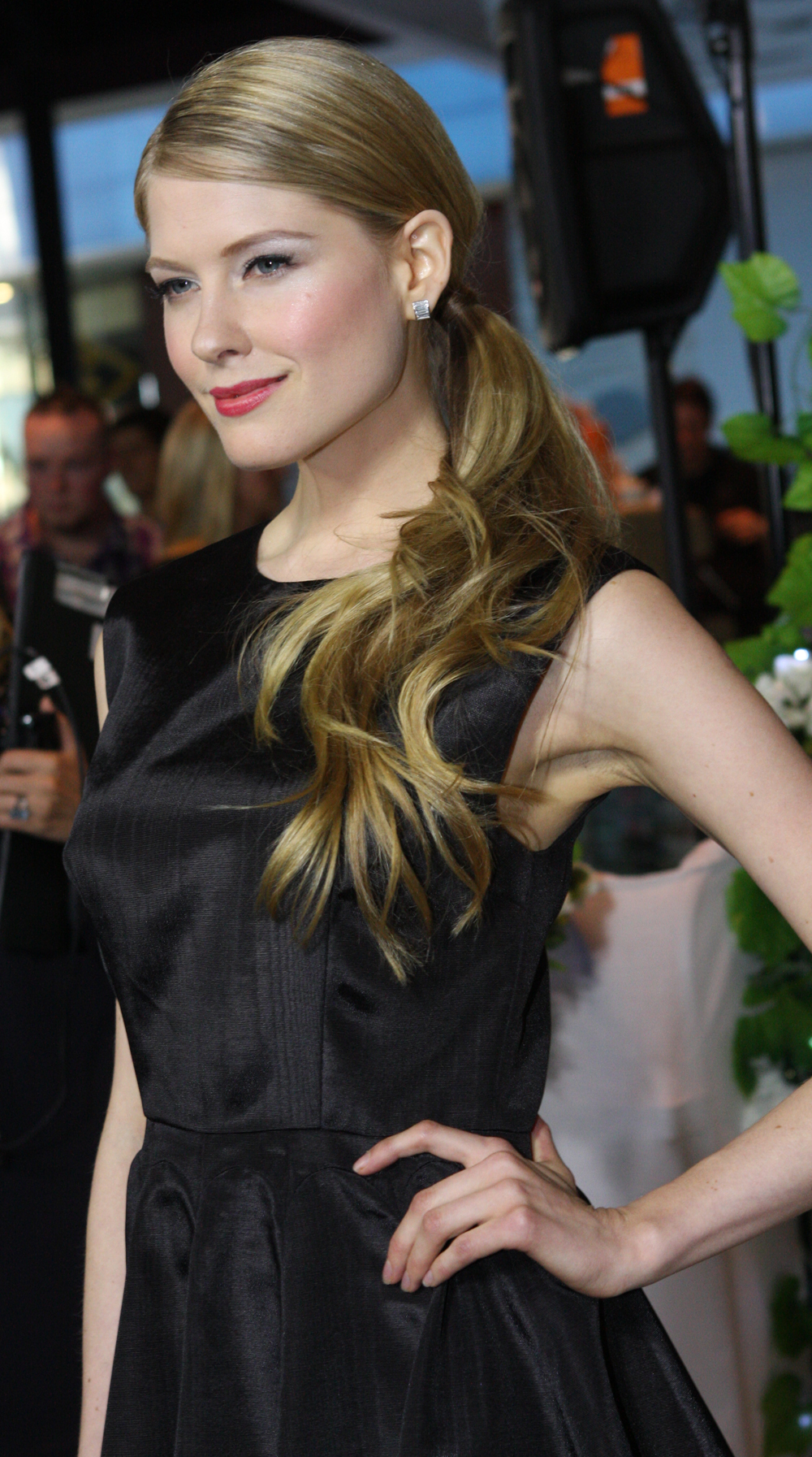 A Few Best Men Red Carpet Movie Premiere In Sydney, Australia A Few Best Men enjoyed its Sydney red carpet premiere earlier this evening at Bondi Junction's Event Cinema. In essence, it's a a comedy about a groom and his three best men who travel to the Australian outback for a wedding. The flick has numerous Sydney based media men and women tipping that this may be just the start of a reinvigoration of Olivia Newton-John's acting career, but its really too early to know for sure. Maybe O-N-J and her agent know something we don't. Twilight Eclipse hunk Xavier Samuel stars as the film's hapless bridegroom. British thespians Kris Marshall (Death At A Funeral) Kevin Bishop (Spanish Apartment), and Australian comedy star Rebel Wilson was there, as was Laura Brent (Chronicles of Narnia), Steve Le Marquand (Beneath Hill 60) and Tangle actor Tim Draxl. Even local MP Malcolm Turnbull and wife Lucy showed up in support. The flick, which was filmed in Sydney and the Blue Mountains, is hoped to be a return to form for Elliott, who has had mixed success since his 1994 smash hit The Adventures of Priscilla: Queen of the Desert. It's quite an unlikely acting platform for Newton-John, who many film industry commentators say her last decent film role was alongside John Travolta in Two of a Kind back in 1983. Elliott told the media that the Aussie singer/actress has fitted in well with the rest of the cast. "She's great. Everyone's coming together really well and she's really getting into it," he said. A Few Best Men opens in cinemas nationally on January 26, 2012. Director: Stephan Elliott Writers: Dean Craig Stars: Rebel Wilson, Olivia Newton-John and Xavier Samuel Websites A Few Best Men official website Icon Film Distribution Event Cinemas Nix Co Eva Rinaldi Photography Flickr Eva Rinaldi Photography Splash News Music News Australia